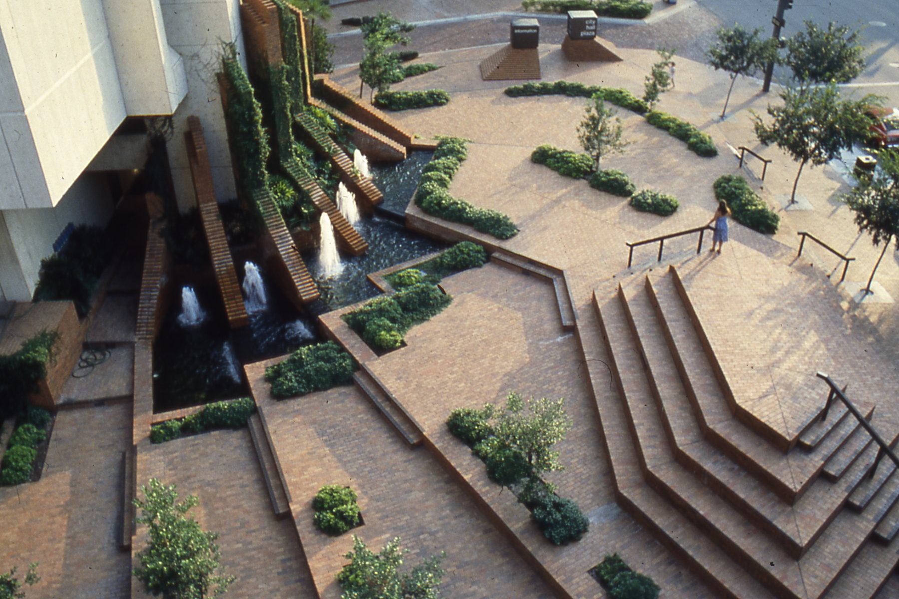 City Hall Plaza in Tampa, Florida, designed by John Howey